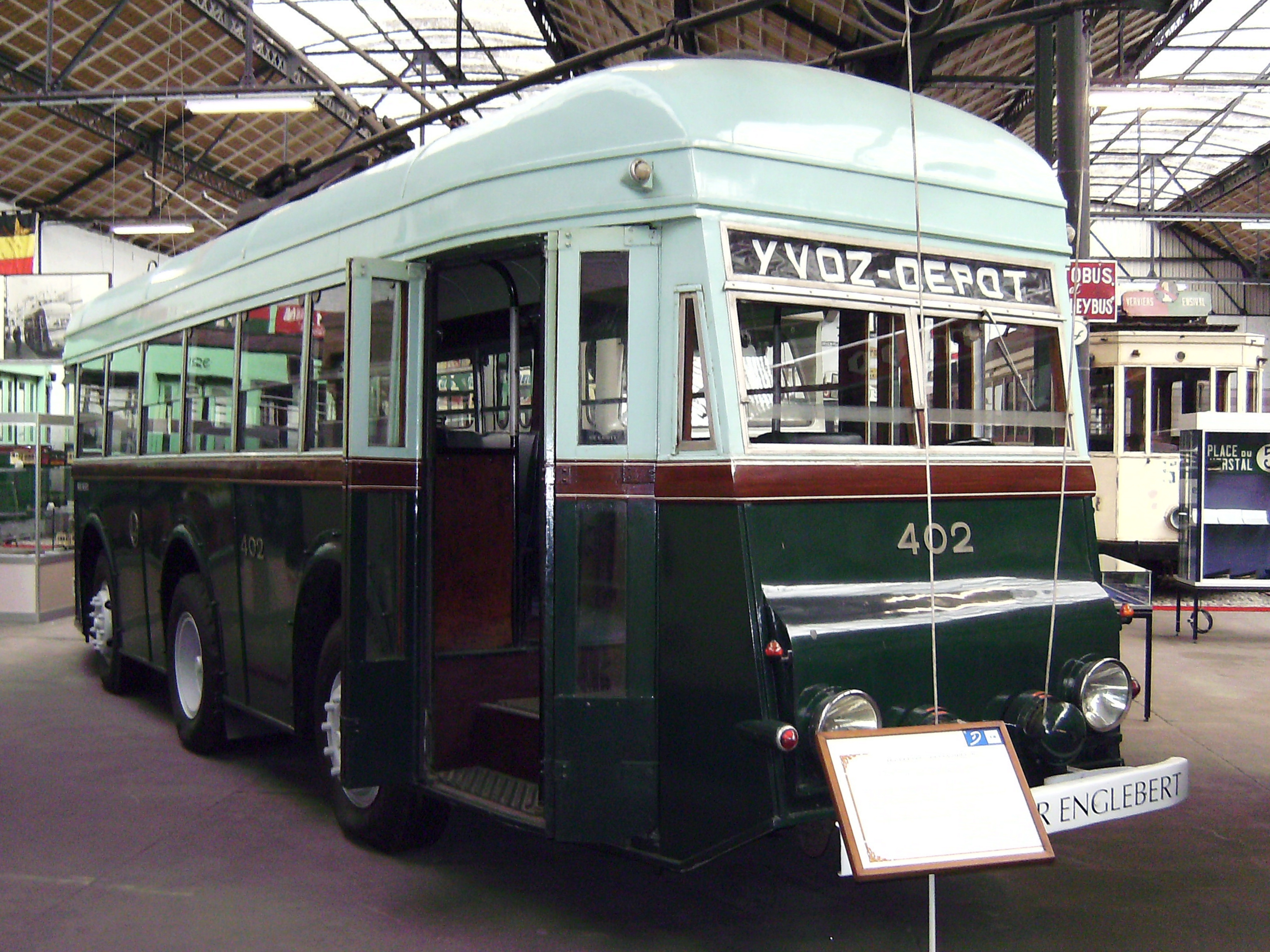 Bidirectional trolleybus in the public transport museum of Liège (Belgium). This trolleybus was build in 1932 for the RELSE. It was converted into conventional unidirectional vehicle in 1940 and remained in service untill 1963. Later it was restored into original form.